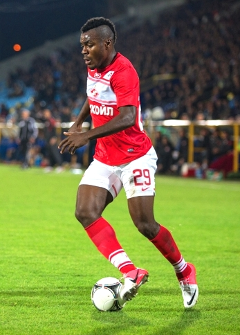 Emmanuel Emenike